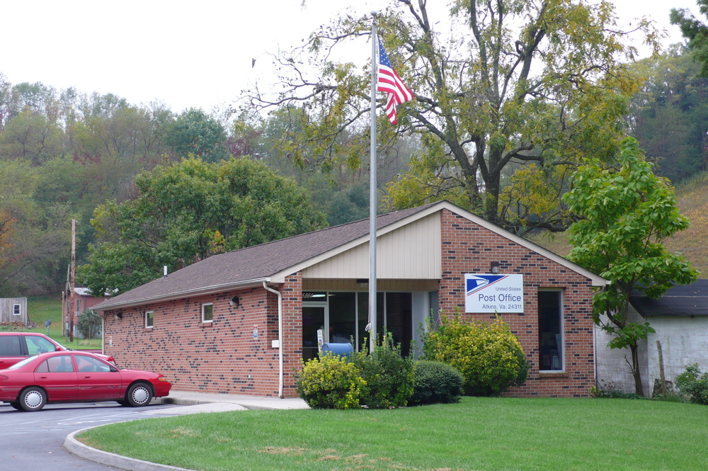 This is the Post Office in the small town of Atkins, Virginia.